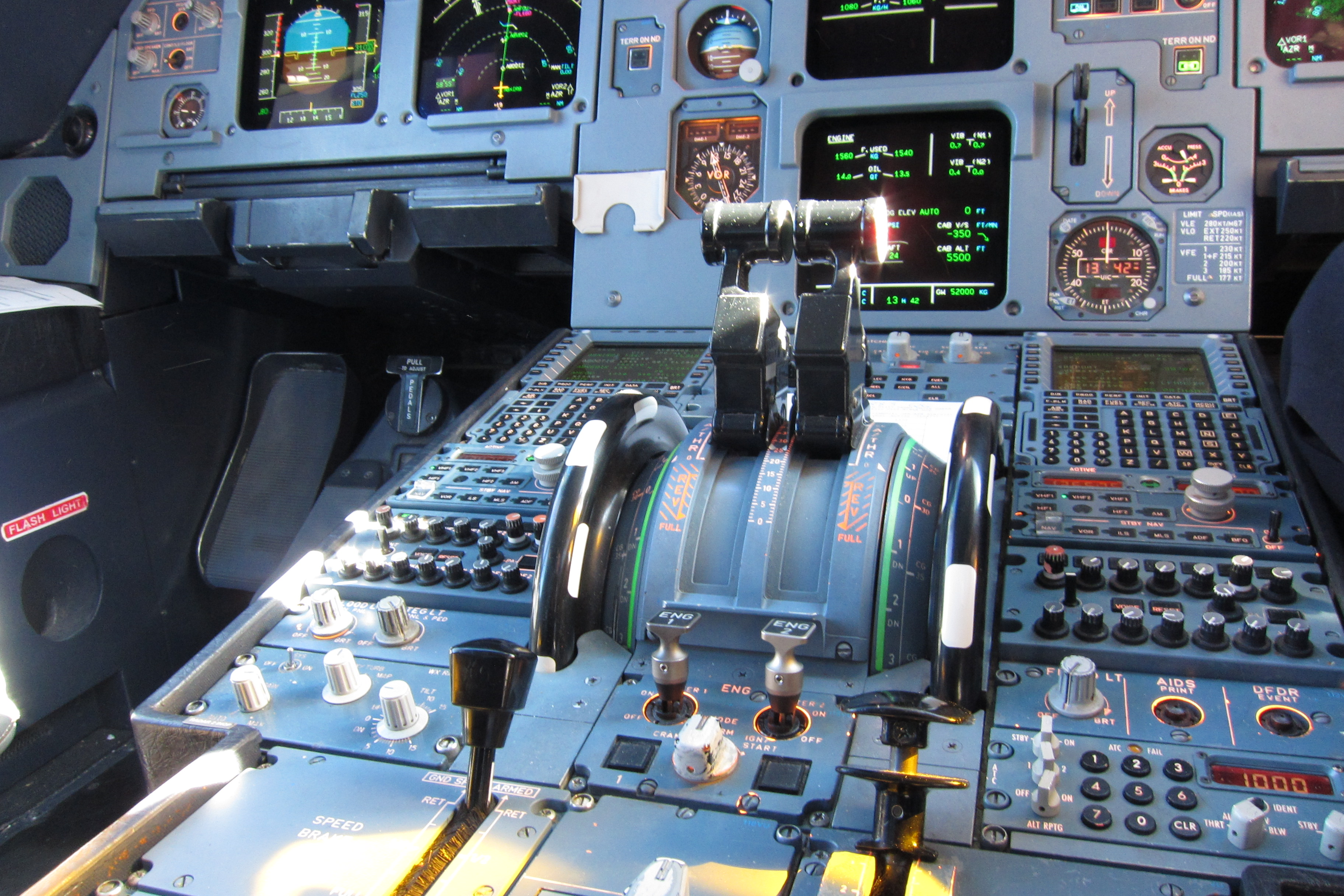 The pedestal of an Airbus A320 family aircraft. The aircraft is in cruise, and the levers are on the ATHR position.